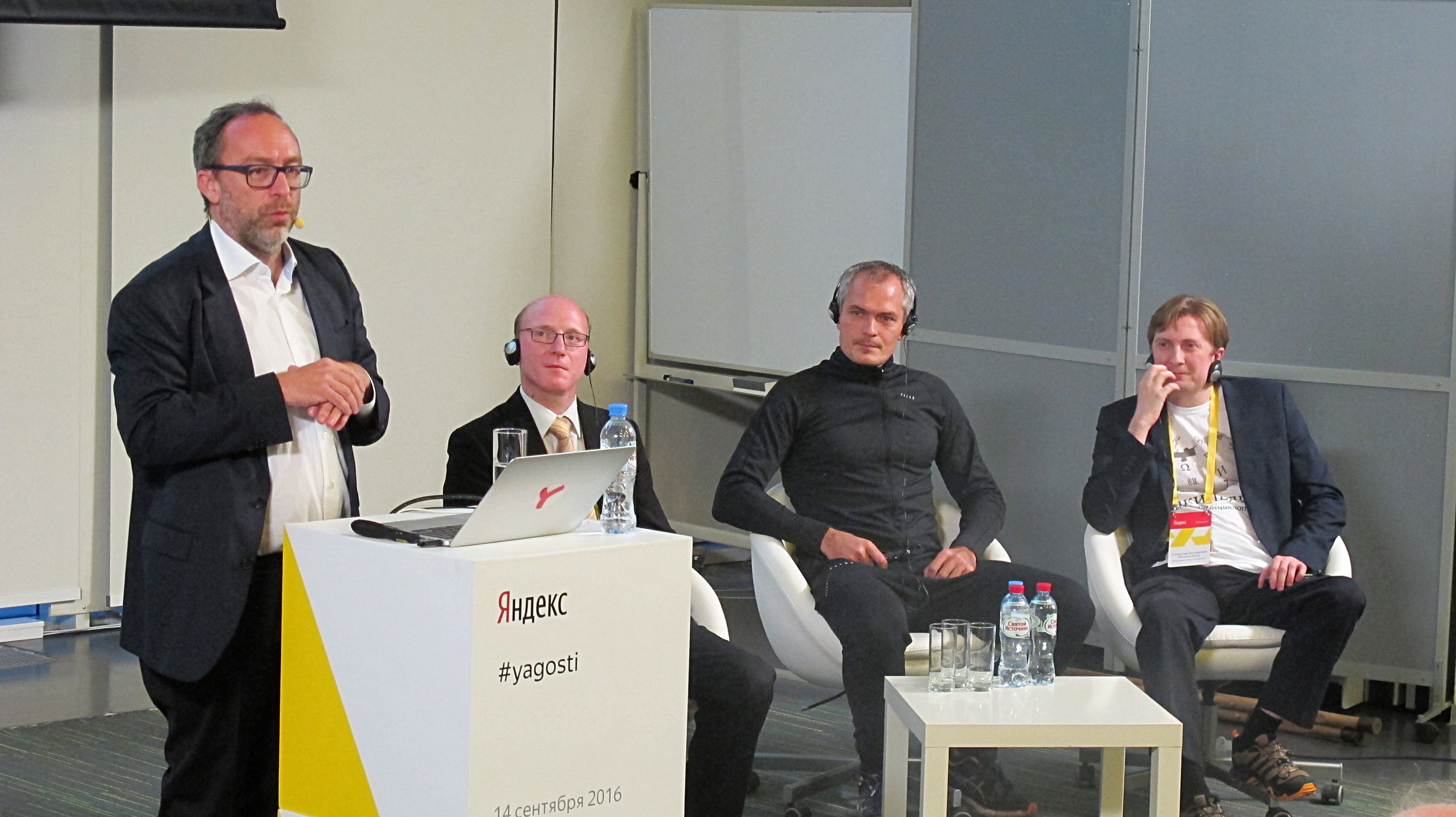 Jimmy Wales in Moscow 2016-09-14